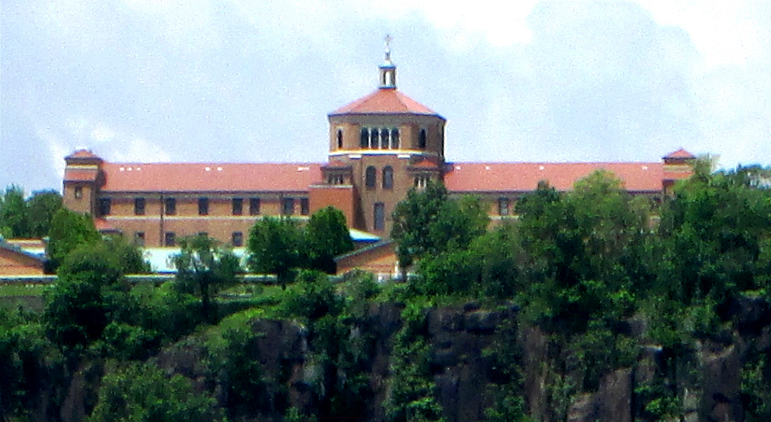 The Englewood Cliff campus of Saint Peter's University as seen from the Dyckman Street Boat Marina.